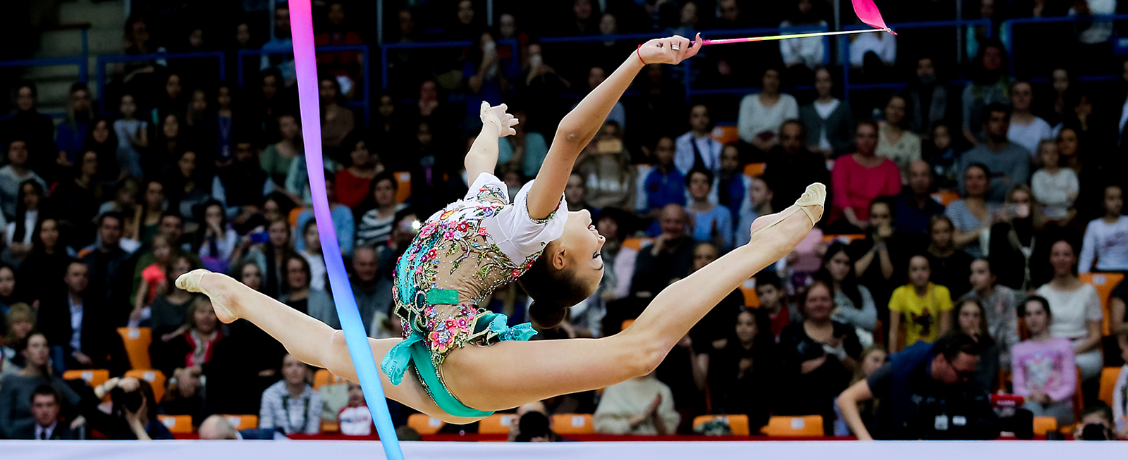 Russian rhythmic gymnast Arina Averina in 2017